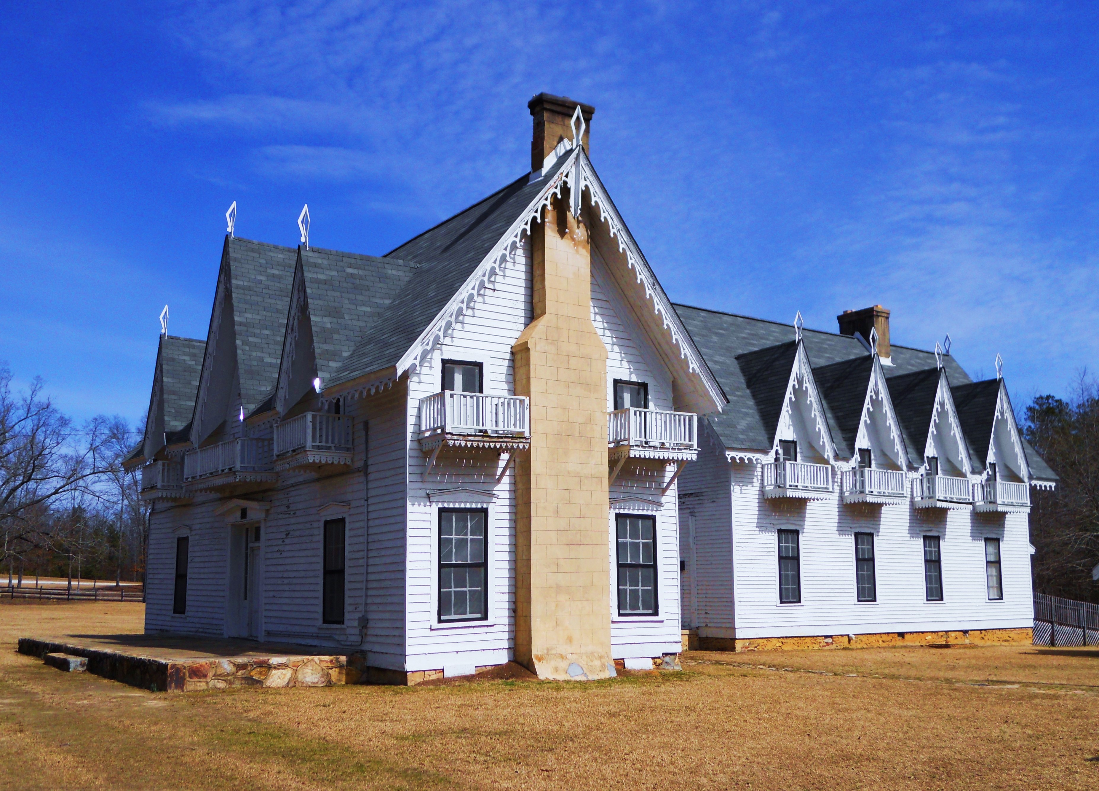 This is a photograph of the Spring Villa house in Spring Villa Park in Opelika, Alabama. It is on the National Register of Historic Places listings in Lee County, Alabama